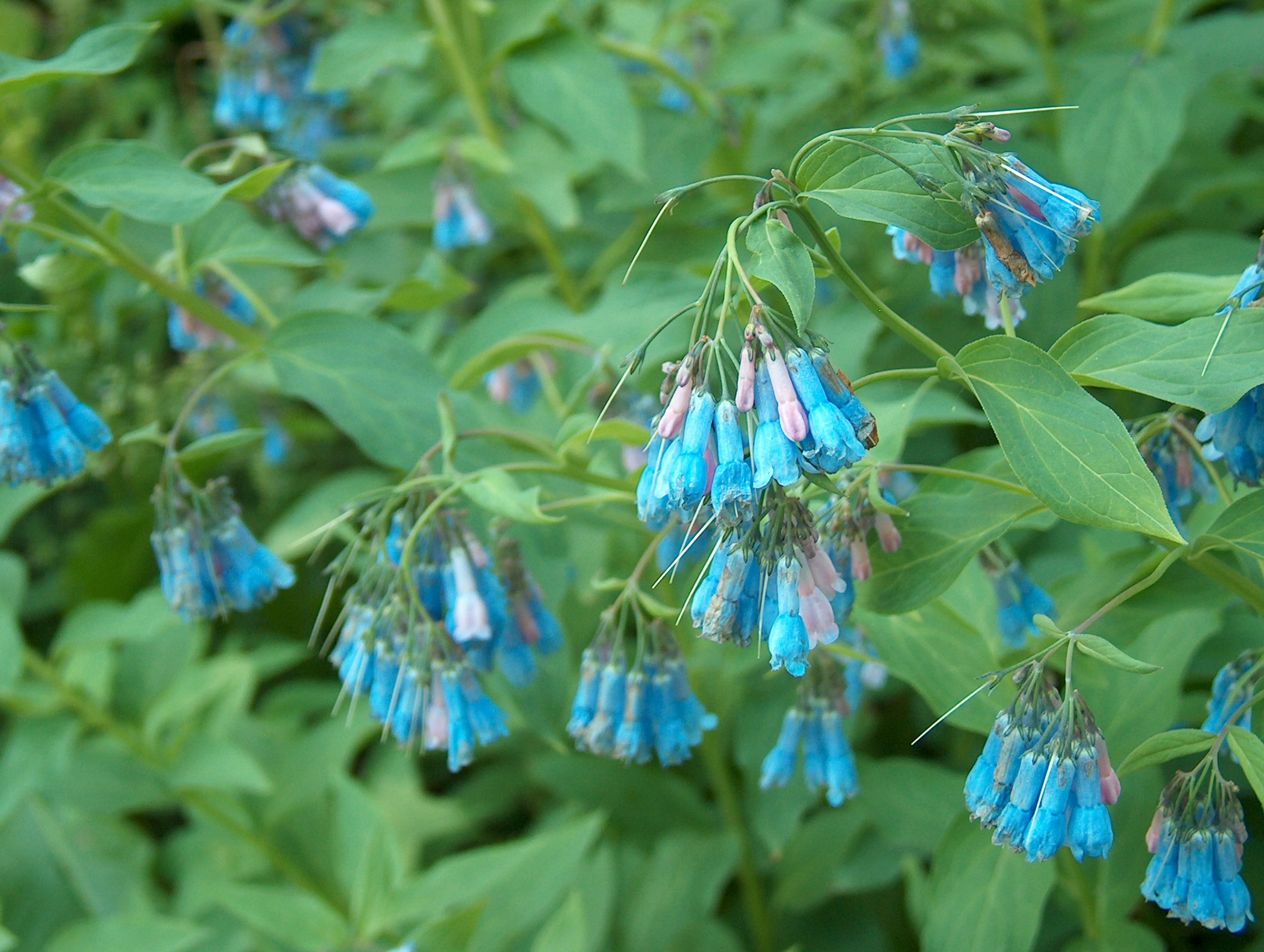 Siberian Bluebells (Mertensia sibirica) in Botanical Garden in Kaisaniemi in Helsinki